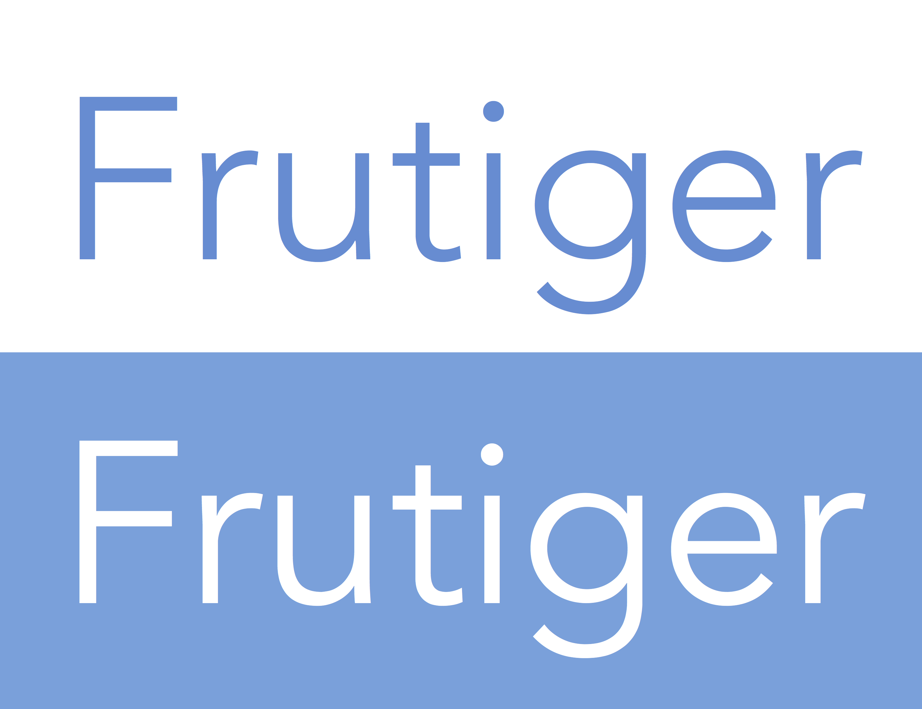 Avenir weights compared. The white text is actually very slightly bolder.